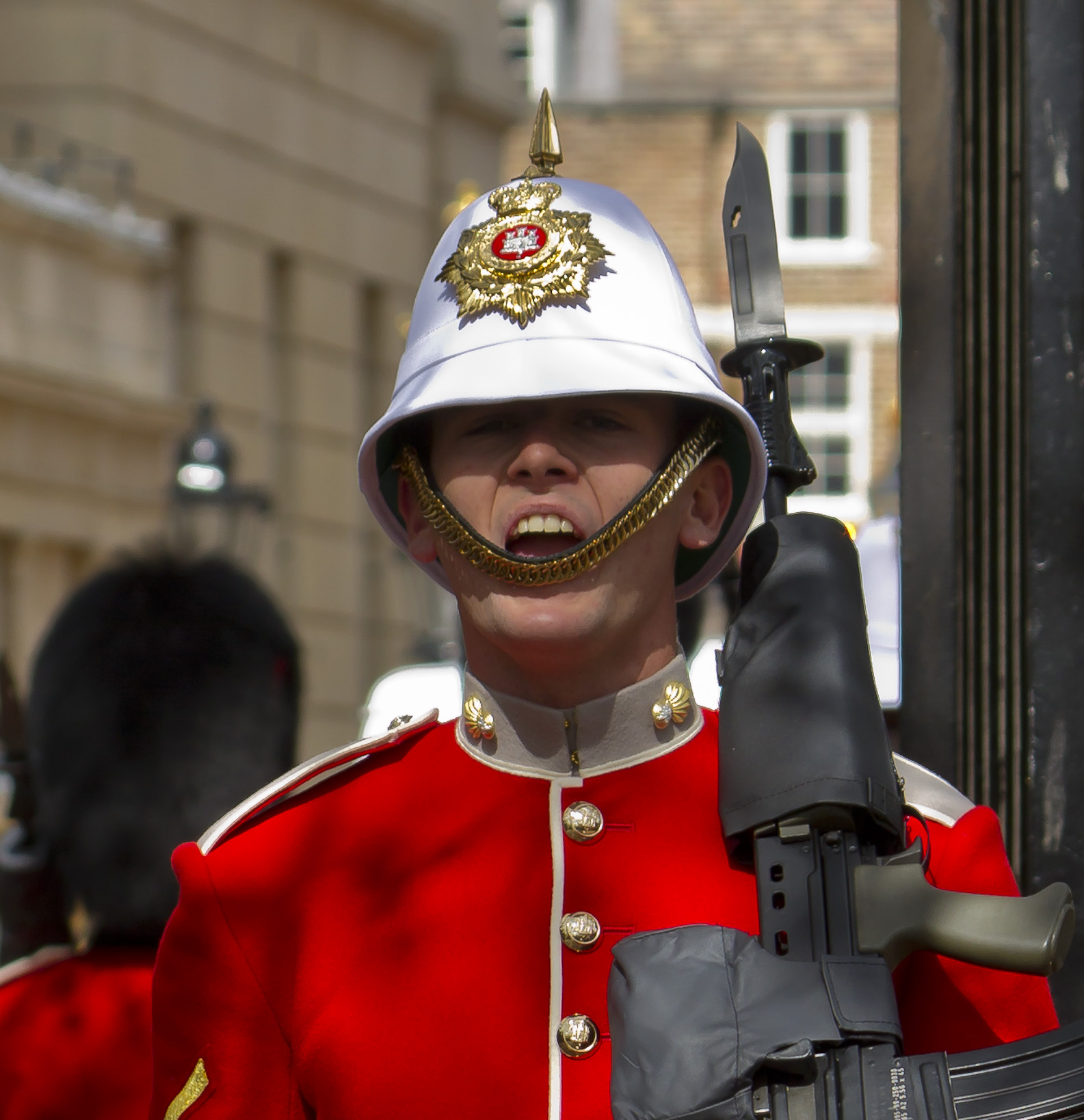 Changing of the Guard - Royal Gibraltar Regiment - commanding the Guard